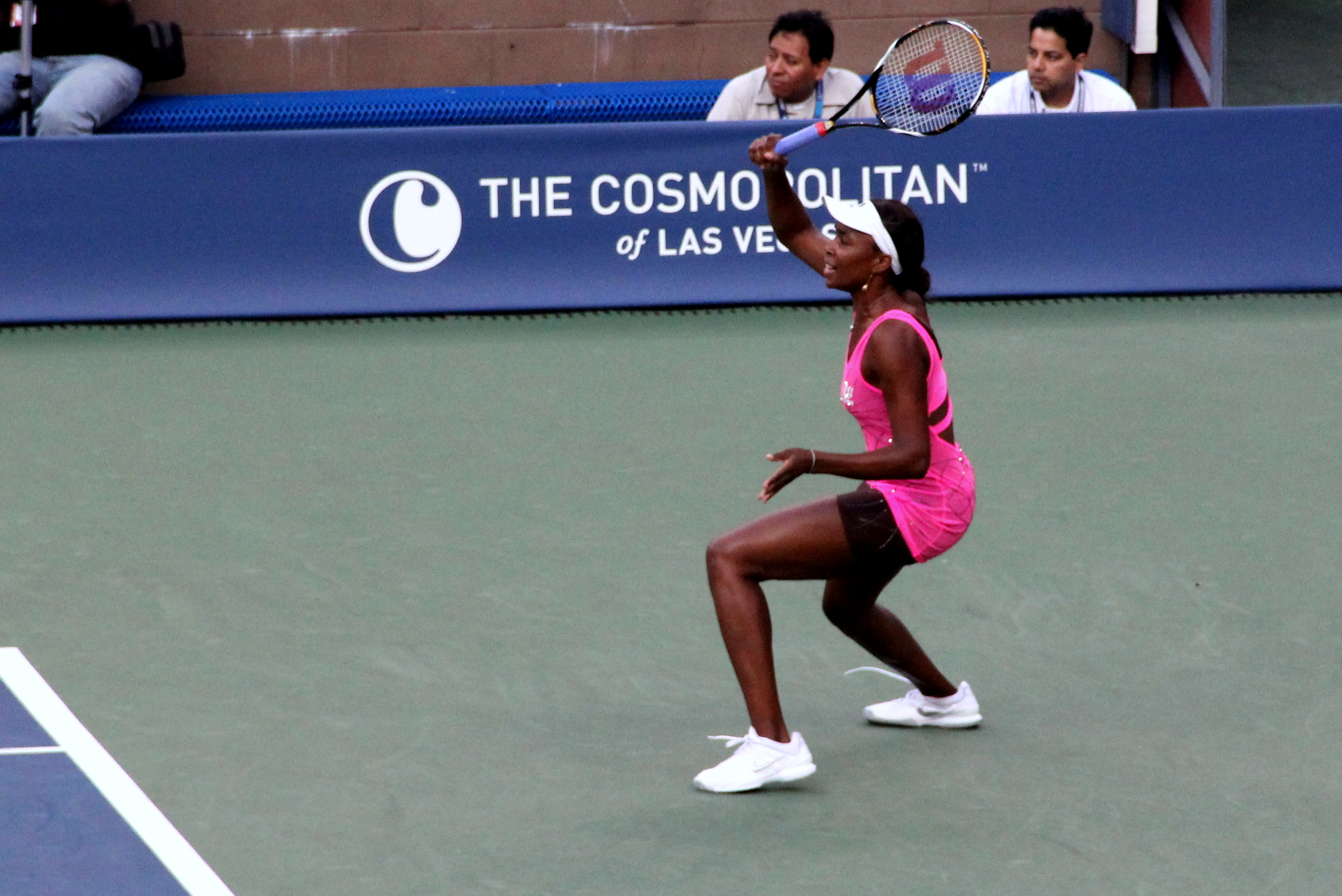 Venus Williams on Tuesday, 9/7, at the US Open. The Cosmopolitan is in New York for the 2010 US Open, inviting attendees and guests to experience signature views from our Overlook and in our custom designed suite with prime-stadium seating. For more information on The Cosmopolitan visit